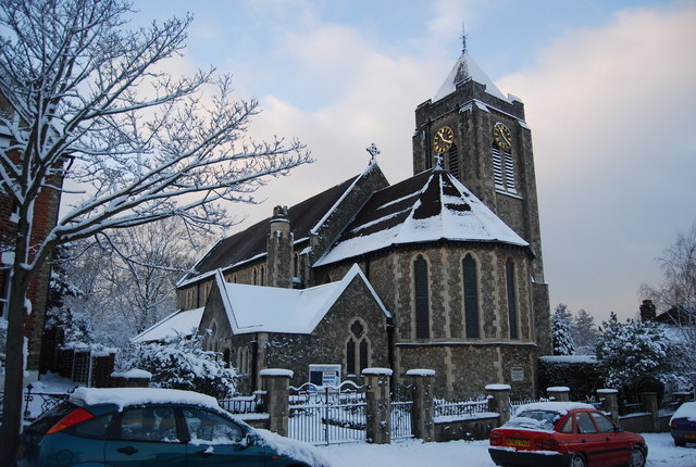 St Luke's parish church, St Luke's Road, Royal Tunbridge Wells, Kent, seen from the southeast in snow